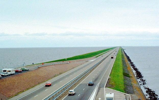 A cropped picture of the 'Afsluitdijk' in The Netherlands. This photo was taken in 1987. On the left side is the sea, and on the right side the lake (IJsselmeer) created by the 'Afsluitdijk'.